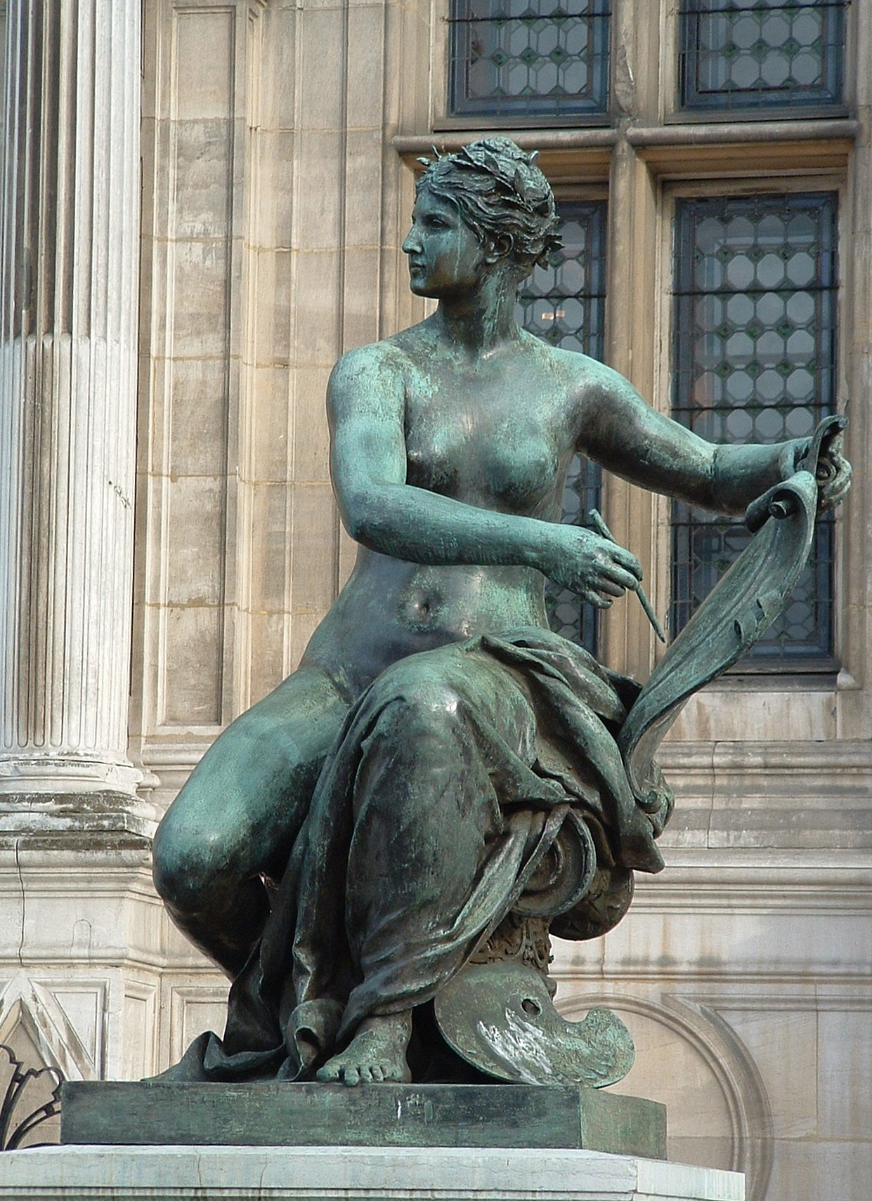 Allegory of "L'Art", bronze statue by Laurent Marqueste, in front, left, of the Hôtel de Ville de Paris. around 1882.